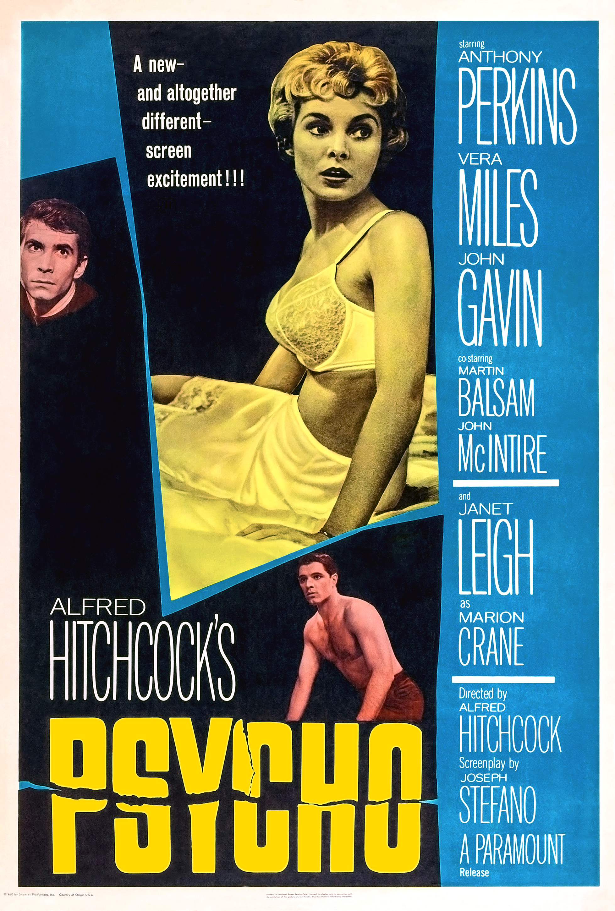 Poster for the American theatrical release of Alfred Hitchcock's 1960 film Psycho. Clockwise from top left: Anthony Perkins (in red), Janet Leigh (in yellow), and John Gavin (in red). Unlike other versions of the same poster, this printing did not use halftone dots for the photographic elements.